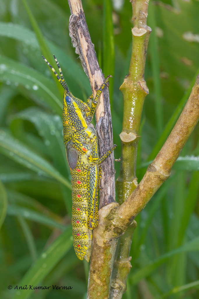 Painted Grasshopper at Yeoor